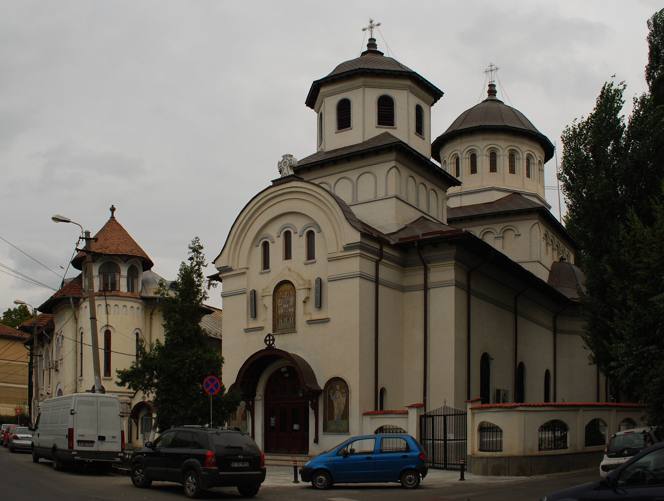 Caramidarii de Jos church and cultural center